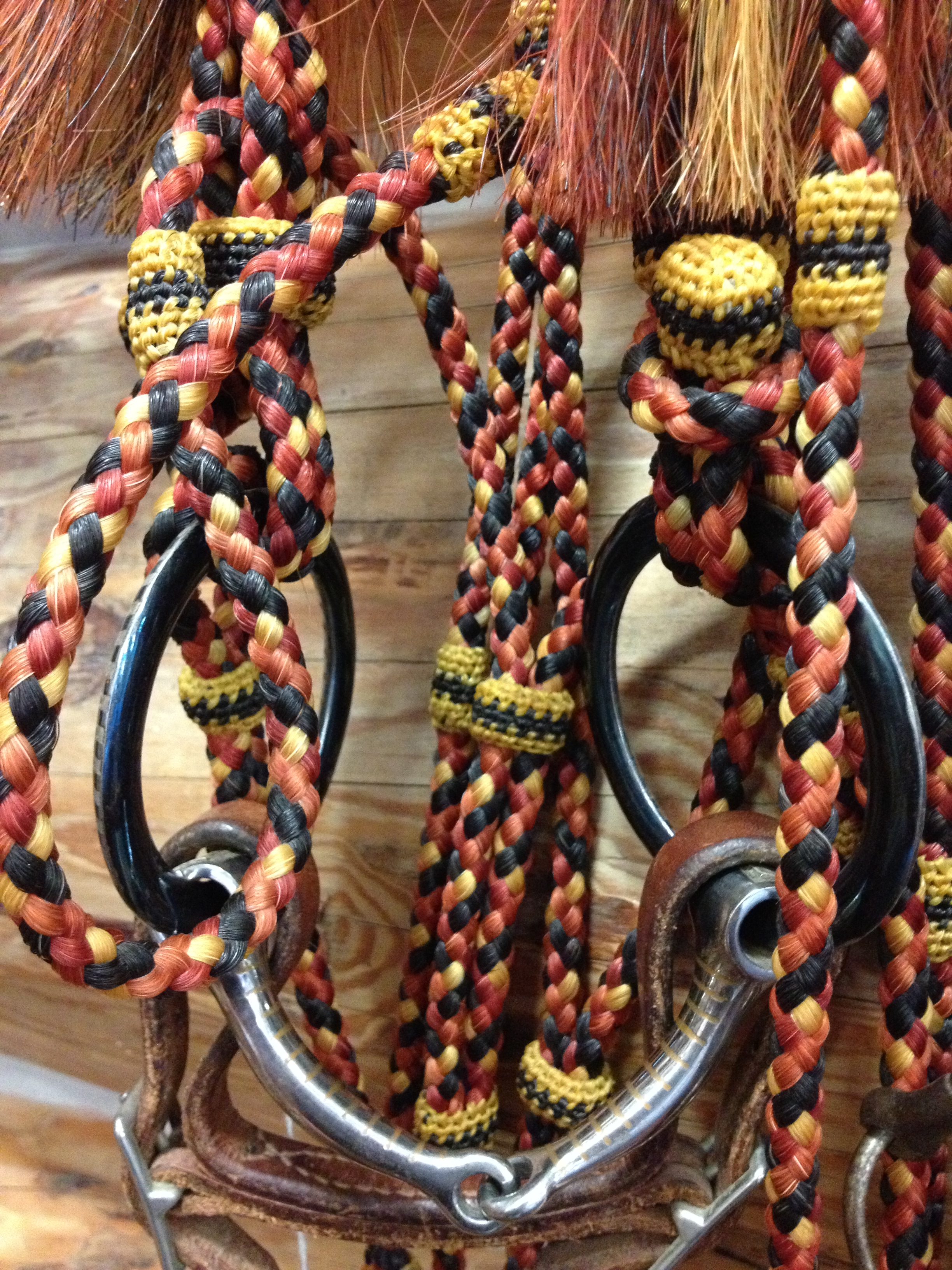 Ninepipes Museum of Early Montana, Charlo, MT. Photo of item in museum shop.